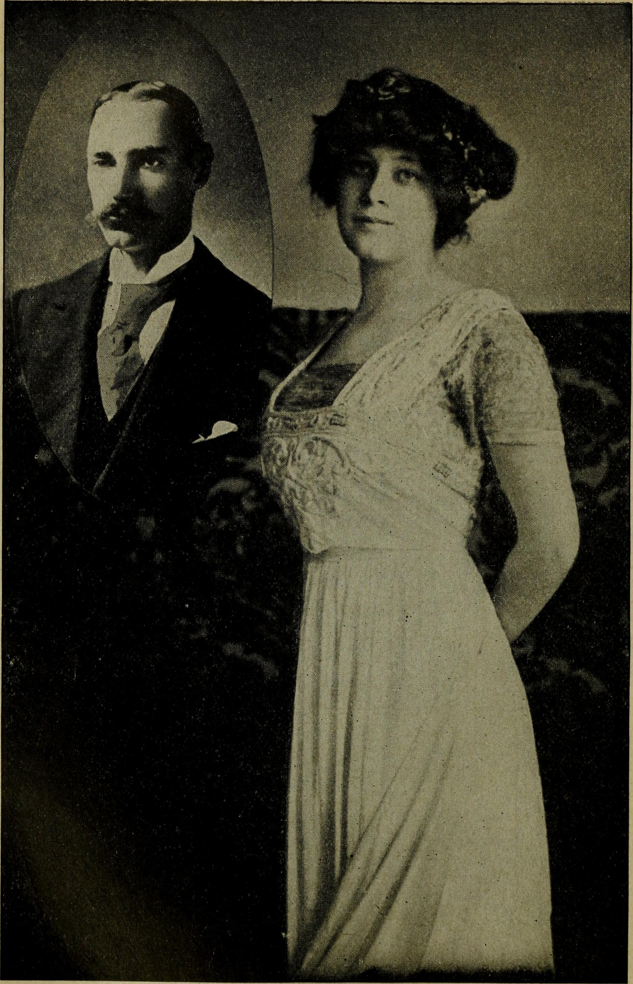 Colonel John Jacob Astor IV and his young bride (Madeleine Astor) Title: Wreck and sinking of the Titanic : the ocean's greatest disaster : a graphic and thrilling account of the sinking of the greatest floating palace ever built, carrying down to watery graves more than 1,500 souls : giving exciting excape from death and acts of heroism not equalled in ancient or modern times, told by the survivors ; edited by Marshall Everett Year: 1912 (1910s) Authors: Everett, Marshall Subjects: Titanic (Steamship) Shipwrecks Publisher: (S.l. : L.H. Walter) Text Appearing Before Image: MR. AND MRS. WILLIAM T. STEADThe great educator and editor, Mr. Stead, mourned by the wholeworld, went down with the Titanic Text Appearing After Image: Copyright by Campbell Stndlo. N. Y COLONEL JOHN JACOB ASTORLost with the Titanic, tnd his young hridc, who was rescut4 WRECK OF THE TITANIC 161 nearly a foot of water in the bottom of the boat and wehadnt a basin, or dipper, not so much as a cup to dip itout with. Meanwhile the waves were rising and if wehadnt been picked up when we were, another half hourwould surely have been the end of us. How did you find things on the Carpathia? wasasked. Just lovely, exclaimed Miss Hippach with enthu-siasm. Nobody could have been Idnder than they were.They kept their own people waiting and just took careof us. There was a warm blanket ready for each oneand they had hot punch readv for us, or hot coffee andfood. We couldnt sleep till night. We had to be crowdedin somewhat. The passengers of the Carpathia gave uptheir rooms or shared them. We were with two oldladies who were very nice. But the first night we gaveup our chance to two little brides who were very, veryill. They were from the Titanic.